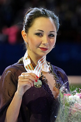 Russian figure skater Elizaveta Tuktamysheva at the 2015 European Figure Skating Championships.